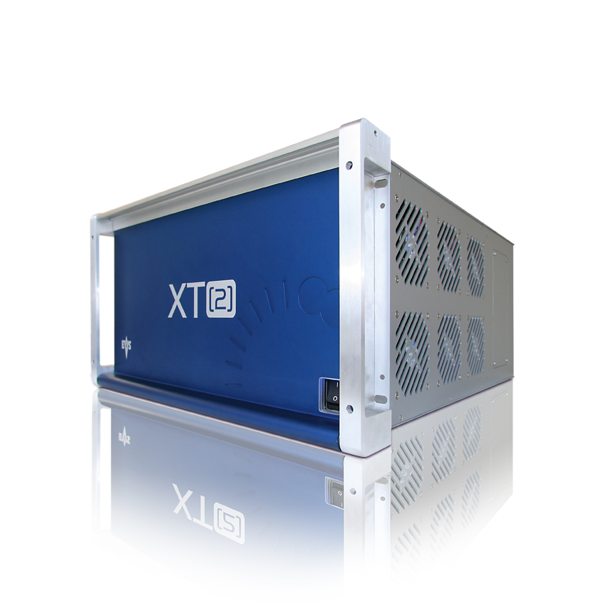 XT[2] server from EVS company